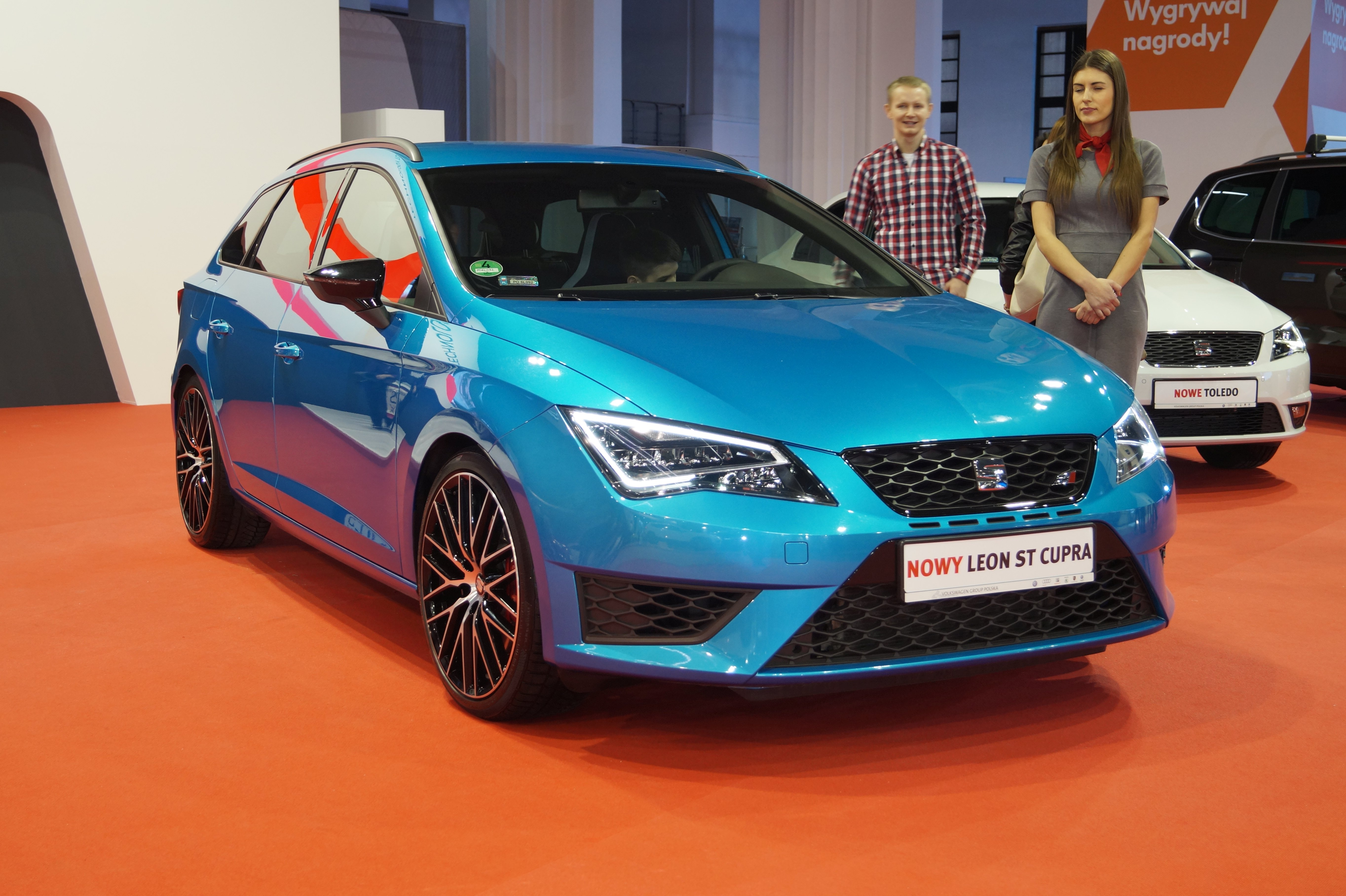 The making of this document was supported by Wikimedia Polska Association, within Wikigrant no. WG 2016-10. Przód auta SEAT Leon ST Cupra na Motor Show Poznań 2016